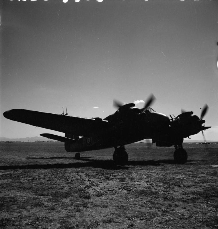 Royal Air Force Operations in the Middle East and North Africa, 1939-1943. A Bristol Beaufighter Mark VIF of No. 255 Squadron RAF running up its engines during sunset at Setif, Algeria.